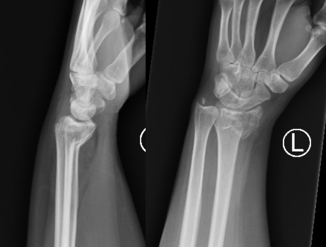 Smith fracture left wrist